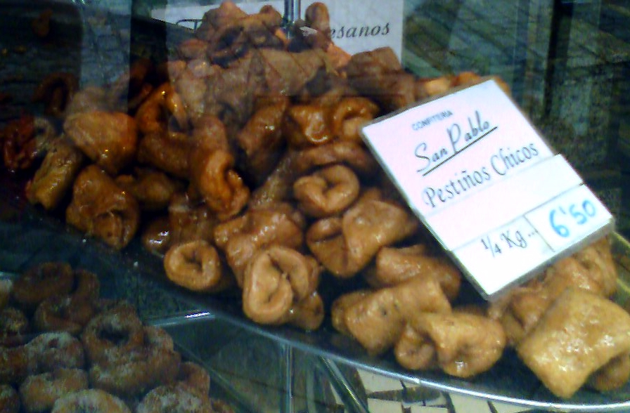 Pestiños de Miel, a honey-coated sweet fritter typical from Seville. Photo by E Asterion u talking to me?